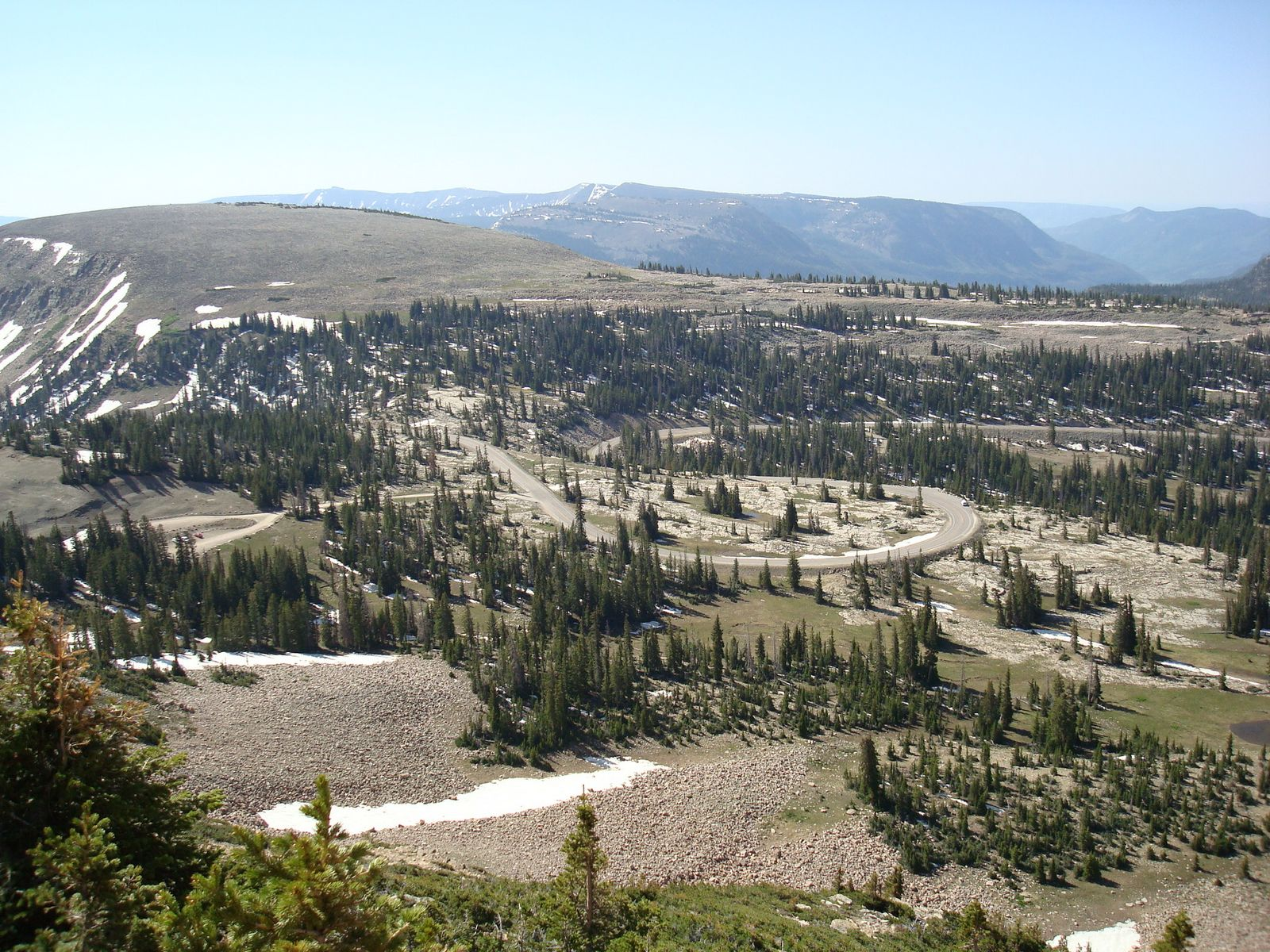 Bald Mountain Pass as seen from the south slope of Bald Mountain in the Uinta Mountains of Utah